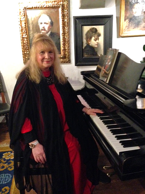 Clara Luisa Demar at the piano in her house